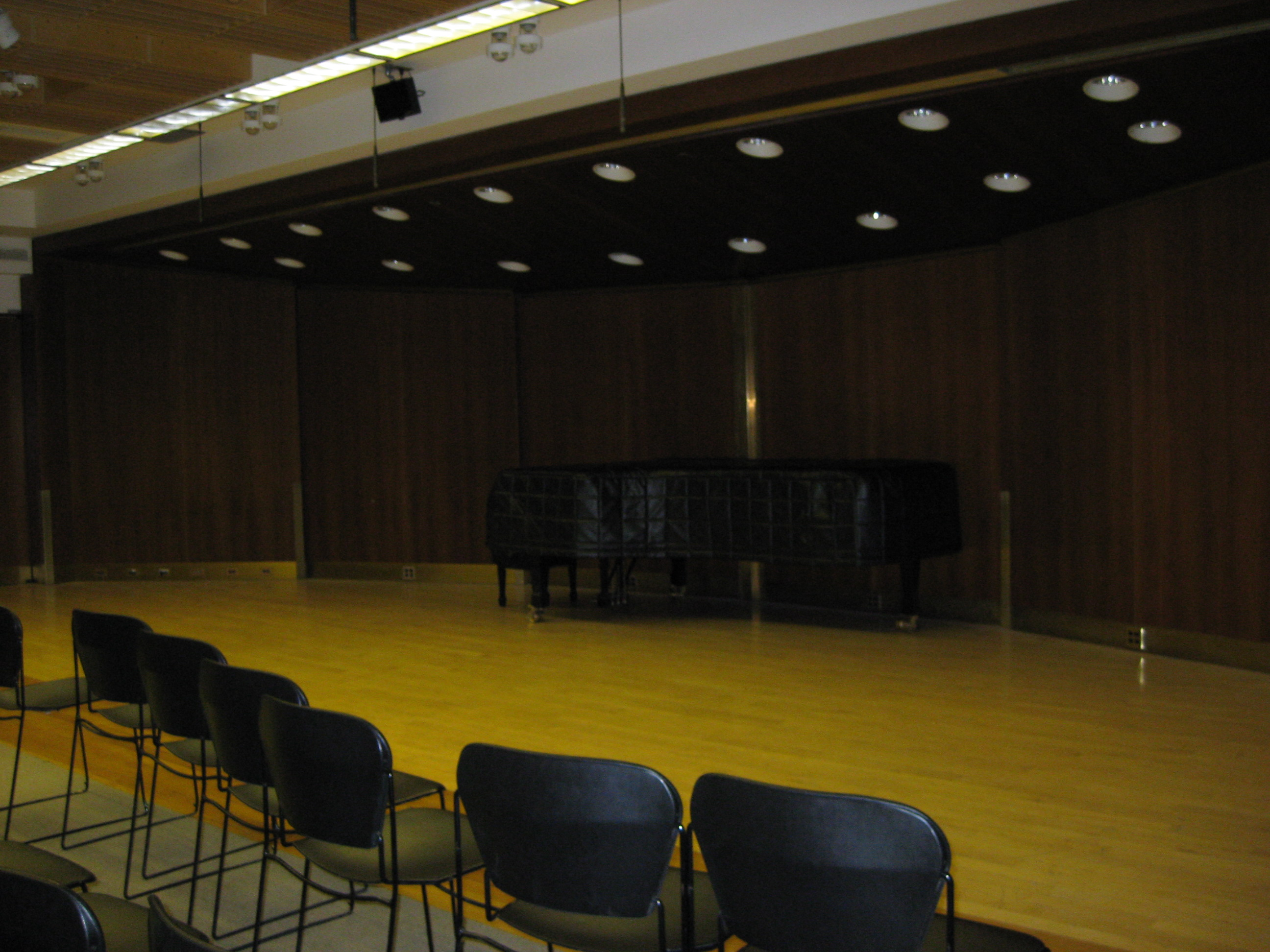 This photo is of Wikipedia Takes Manhattan location code 18, Juilliard School.